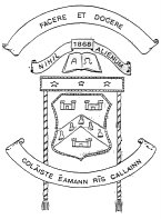 Colaiste Eamann Ris school crest (blank).